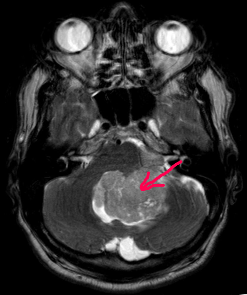 MRI T2 Ependemom marked by pointer